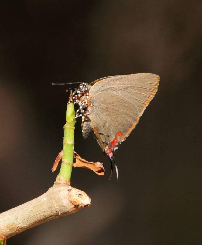 Female lesser fig tree blue Myrina dermaptera dermaptera at uMhlanga, KwaZulu-Natal. LepiMAP record no. 25189